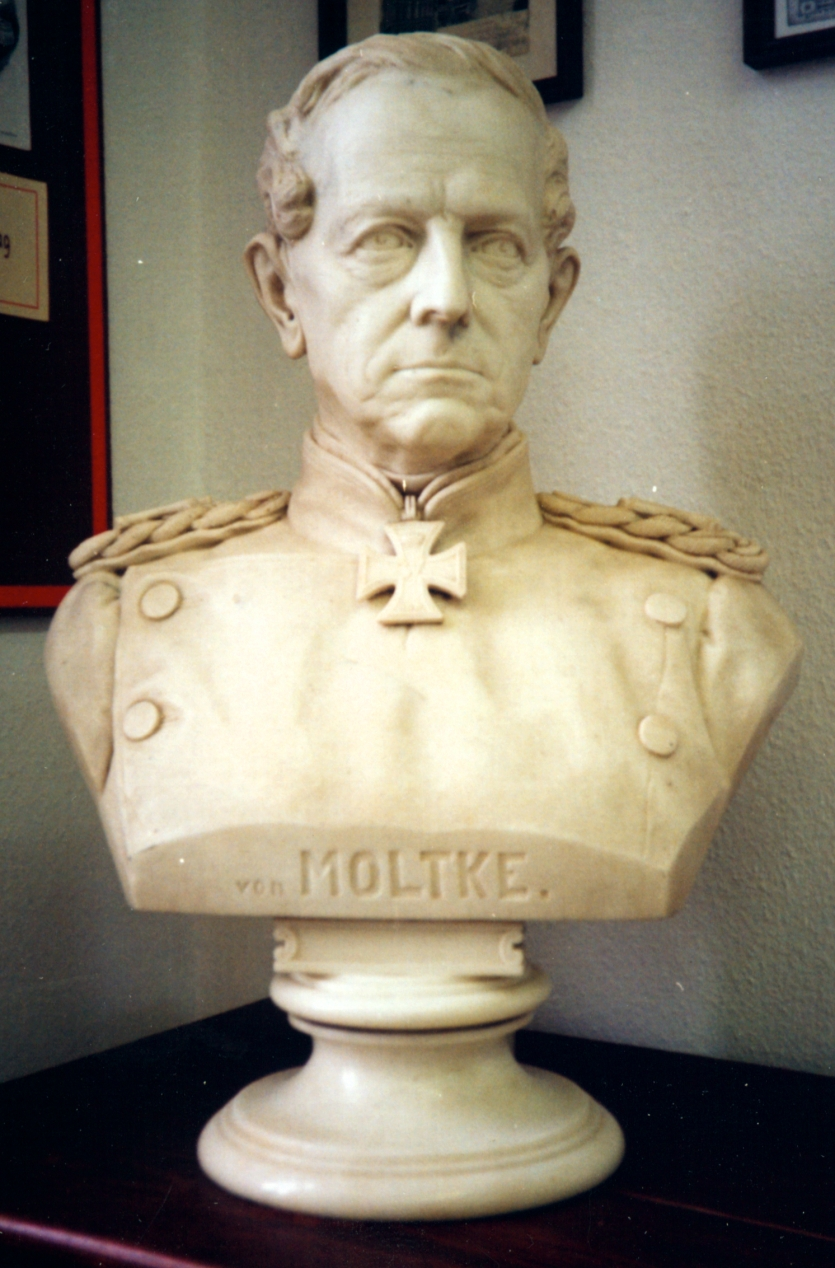 Marblebust of Helmuth von Moltke by Ludwig Brunow